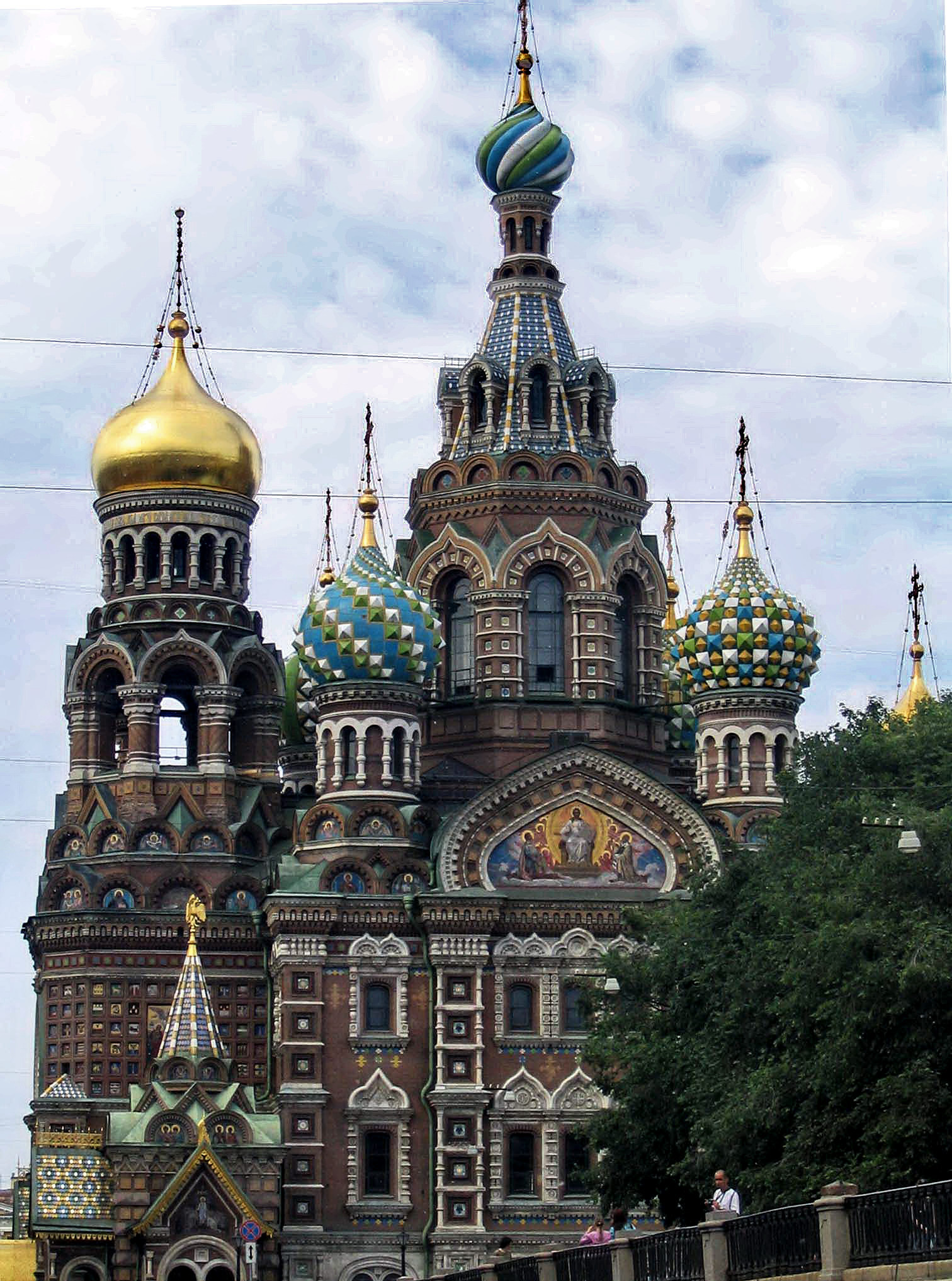 Taken 6/06 by me of Savior on blood church in St. Petersburg from the Griboedov Canal, all rights released into public domain